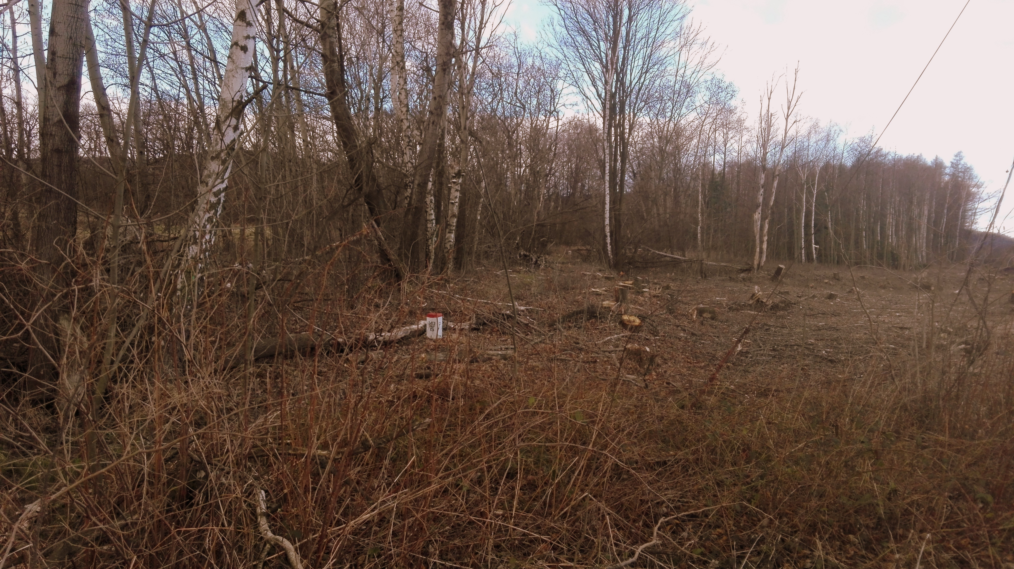 Głuchołazy-Jindřichov ve Slezsku border crossing